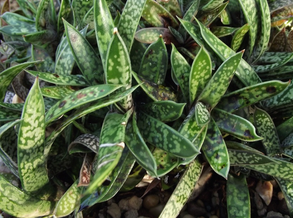 Gasteria liliputana = Gasteria obliqua = Gasteria bicolor at the Volunteer Park Conservatory, Seattle, Washington, USA. Identified by sign.